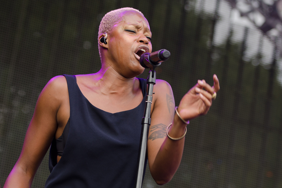 Fitz and the Tantrums @ Firefly Music Festival in Dover, DE on July 22, 2012. This photo is licensed under a Creative Commons license. If you use this photo within the terms of the license or make special arrangements to use the photo, please list the photo credit as "Mark Runyon / " and link the text to